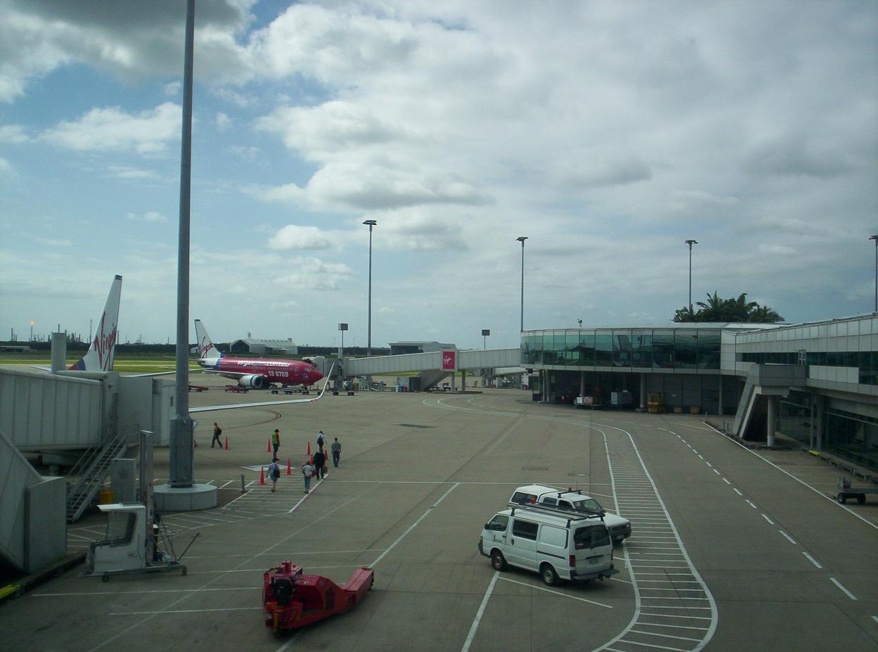 Virgin Blue Airliners at the Brisbane Airport domestic terminal